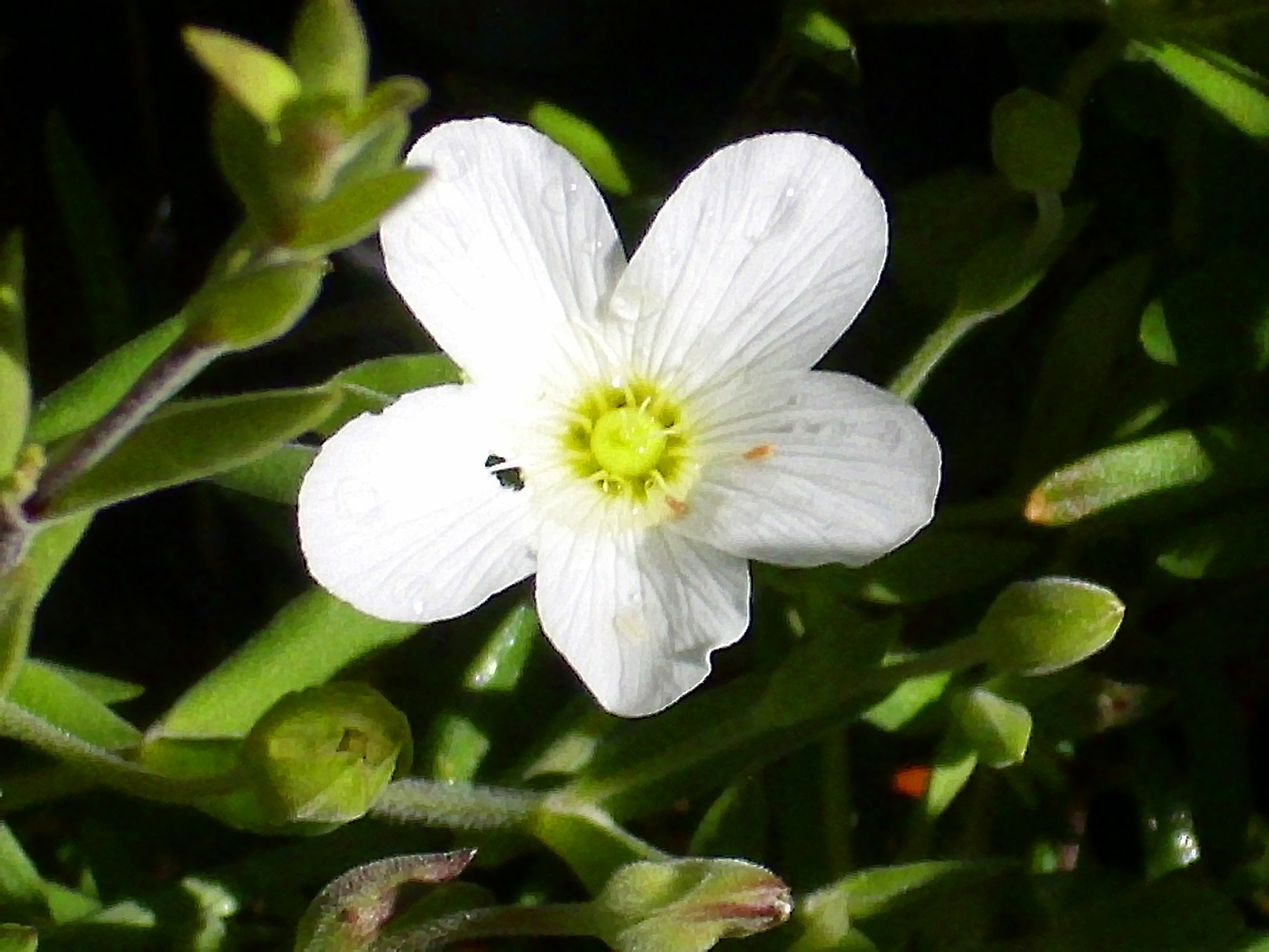 Arenaria montana flower Sierra Madrona, Spain